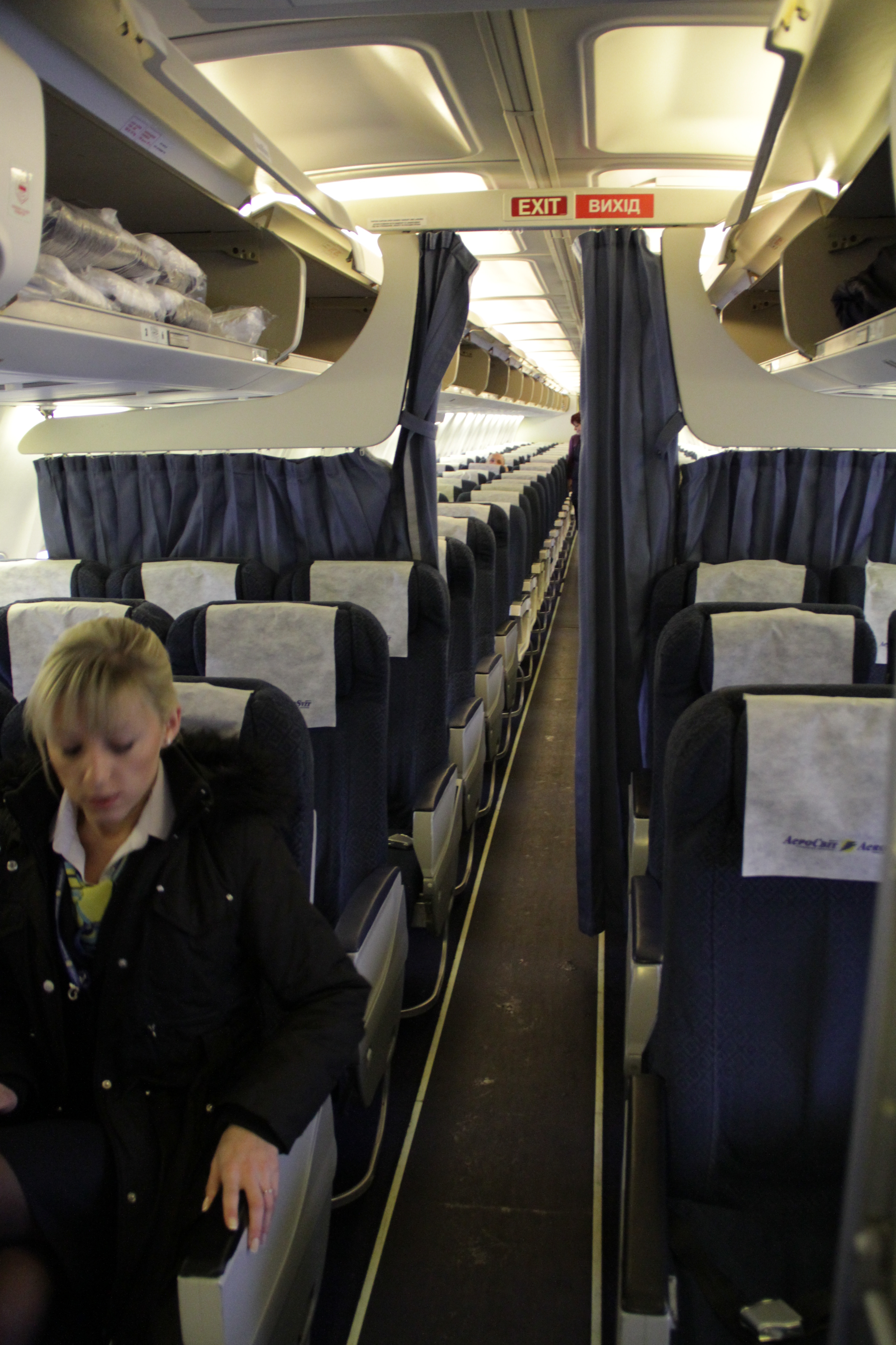 Aerosvit Boeing-737-400 UR-VVP cabin